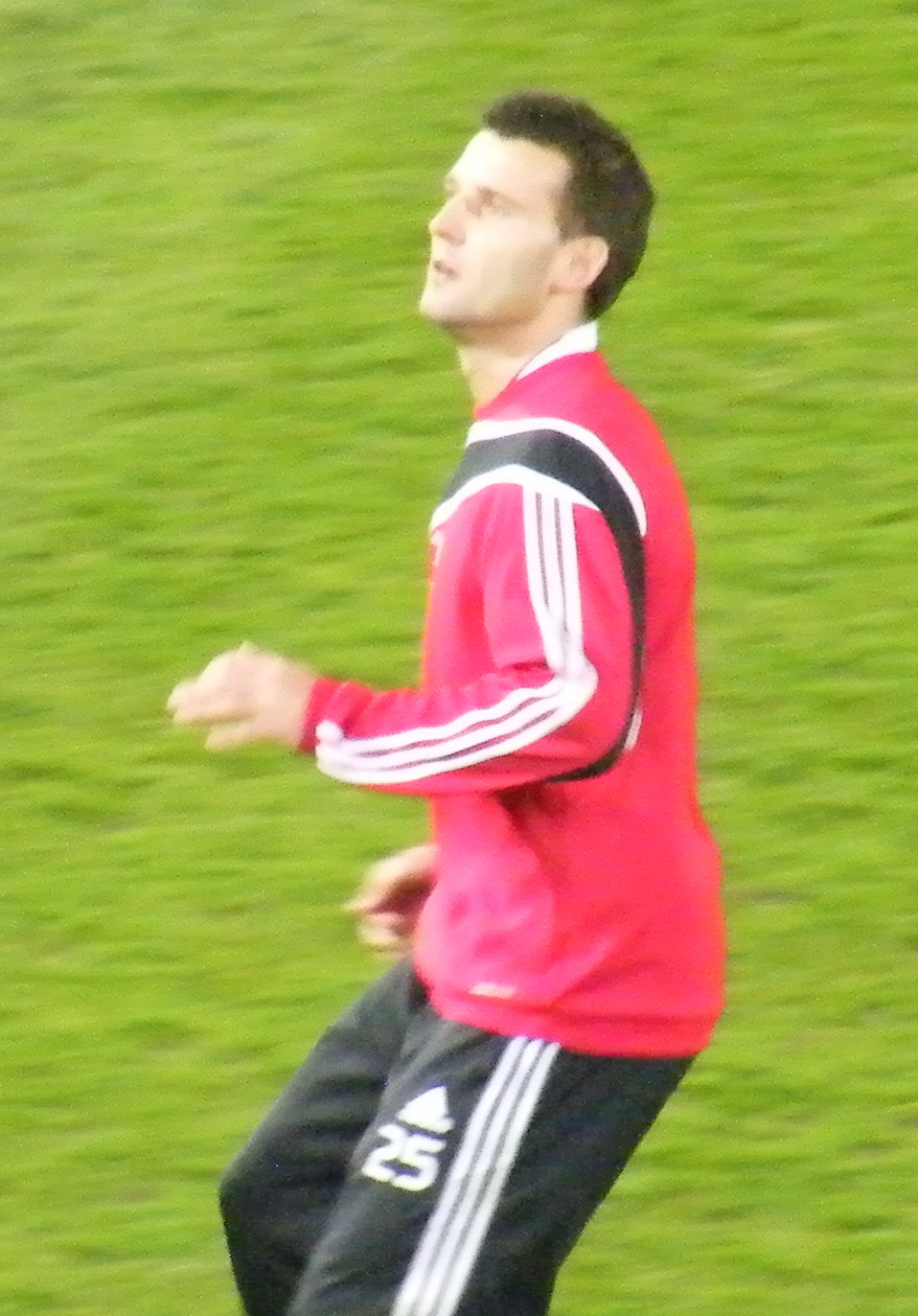 Zoltán Szélesi Hungarian football player